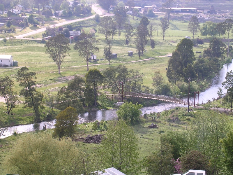 Buchan River, Bridge and Football Ground